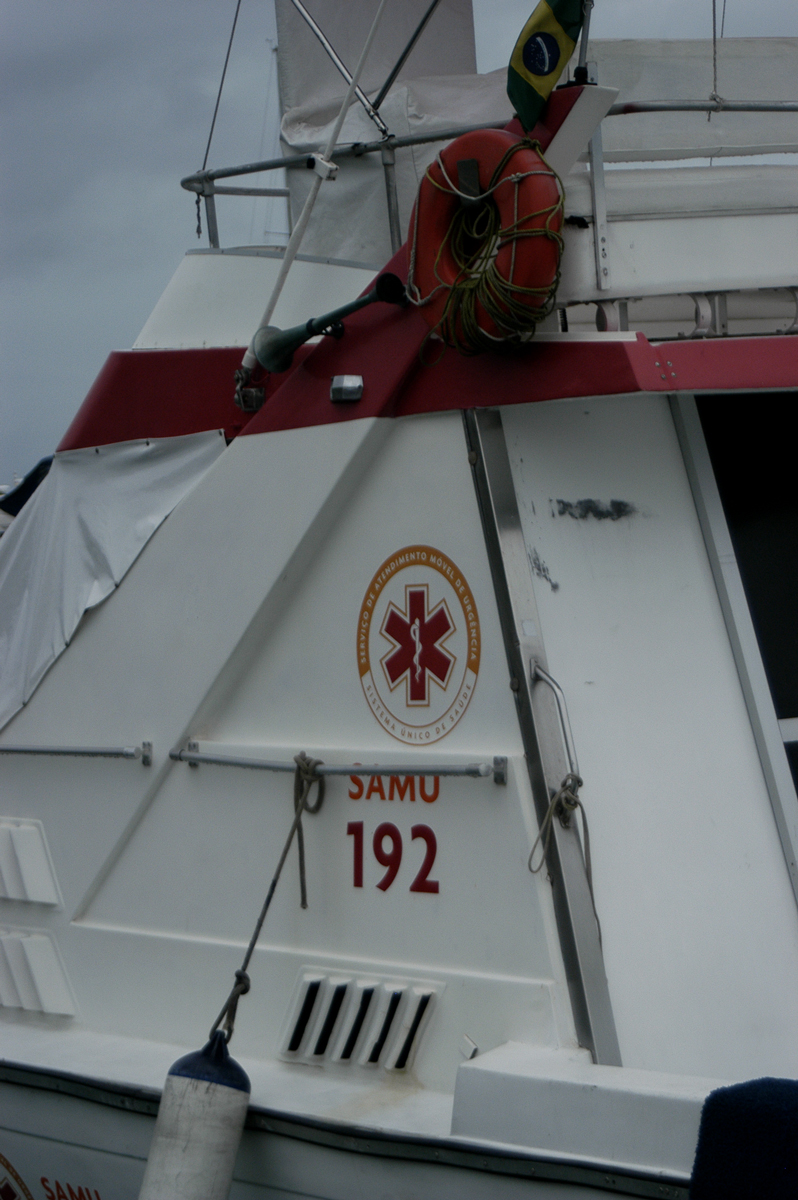 SAMU - Emergency Medical Service (Nautical) - Brazil